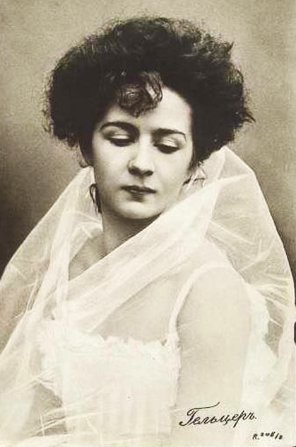 Russian prima ballerina Ekaterina Geltzer (1876 - 1962)